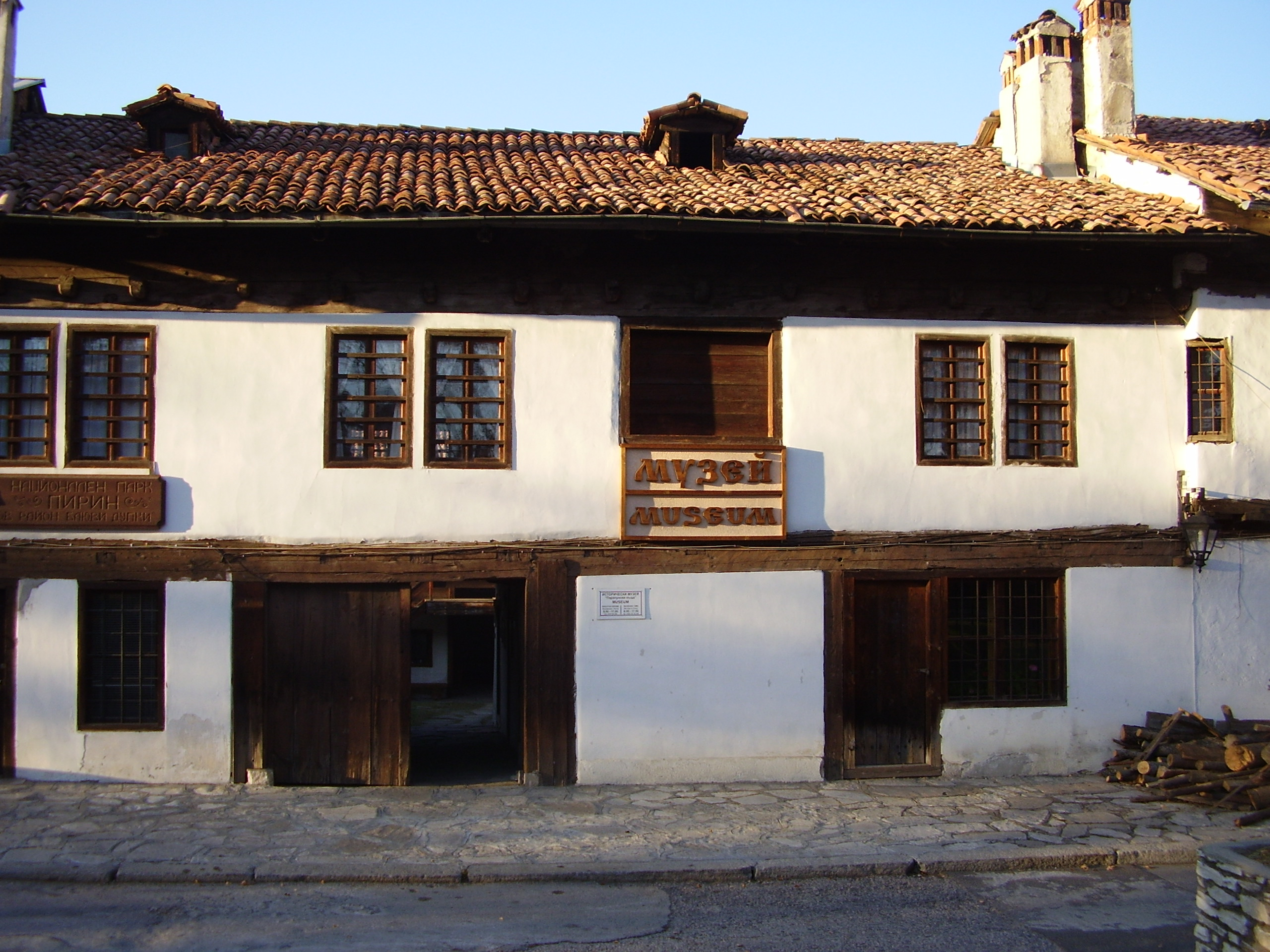 picture fo museum